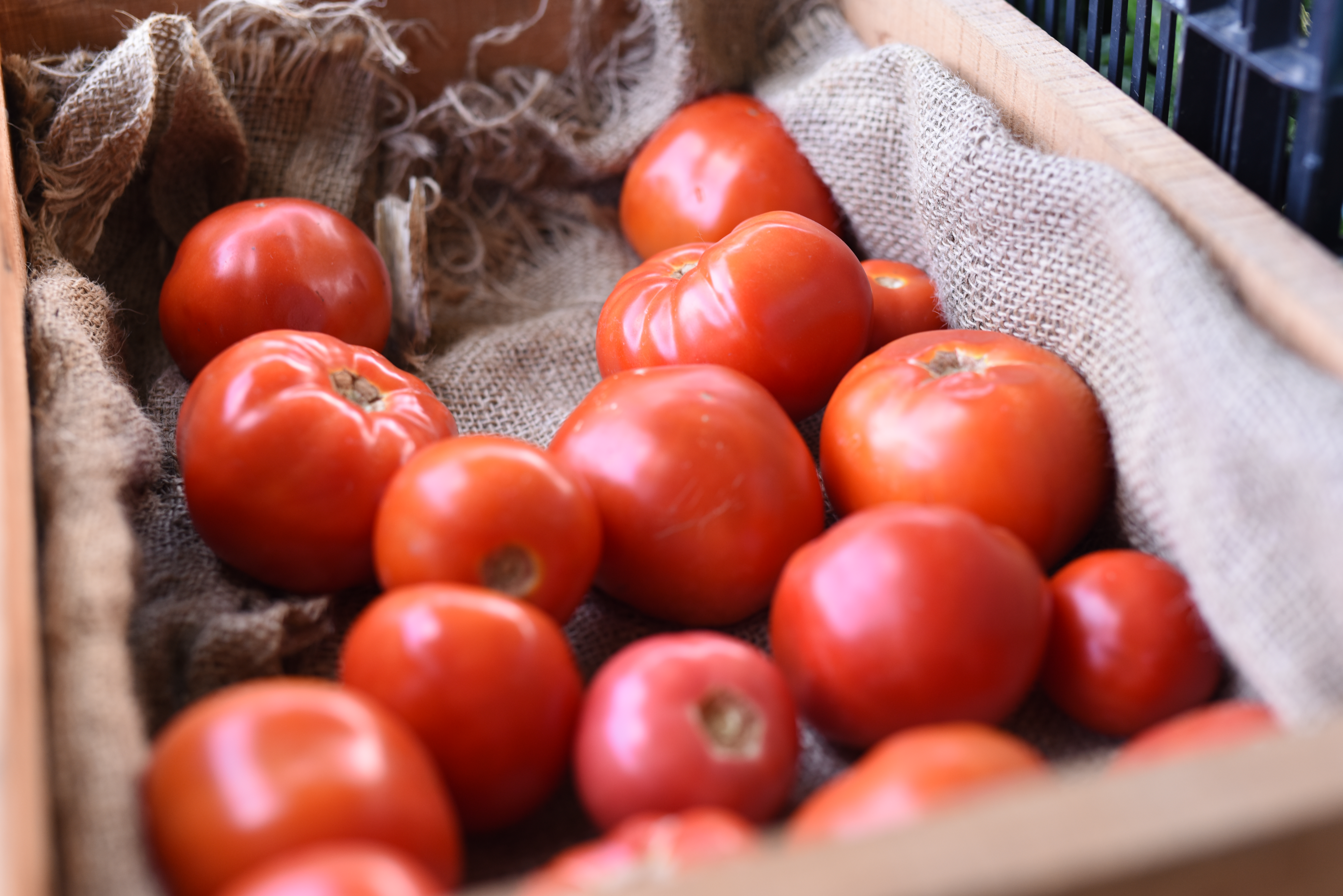 Farmer's Markets are beneficial to the environment and your local economy.